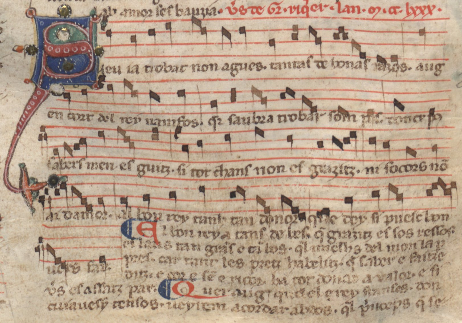 Song of Guiraut Riquier from chansonnier manuscript BnF 22543, folio 107r.